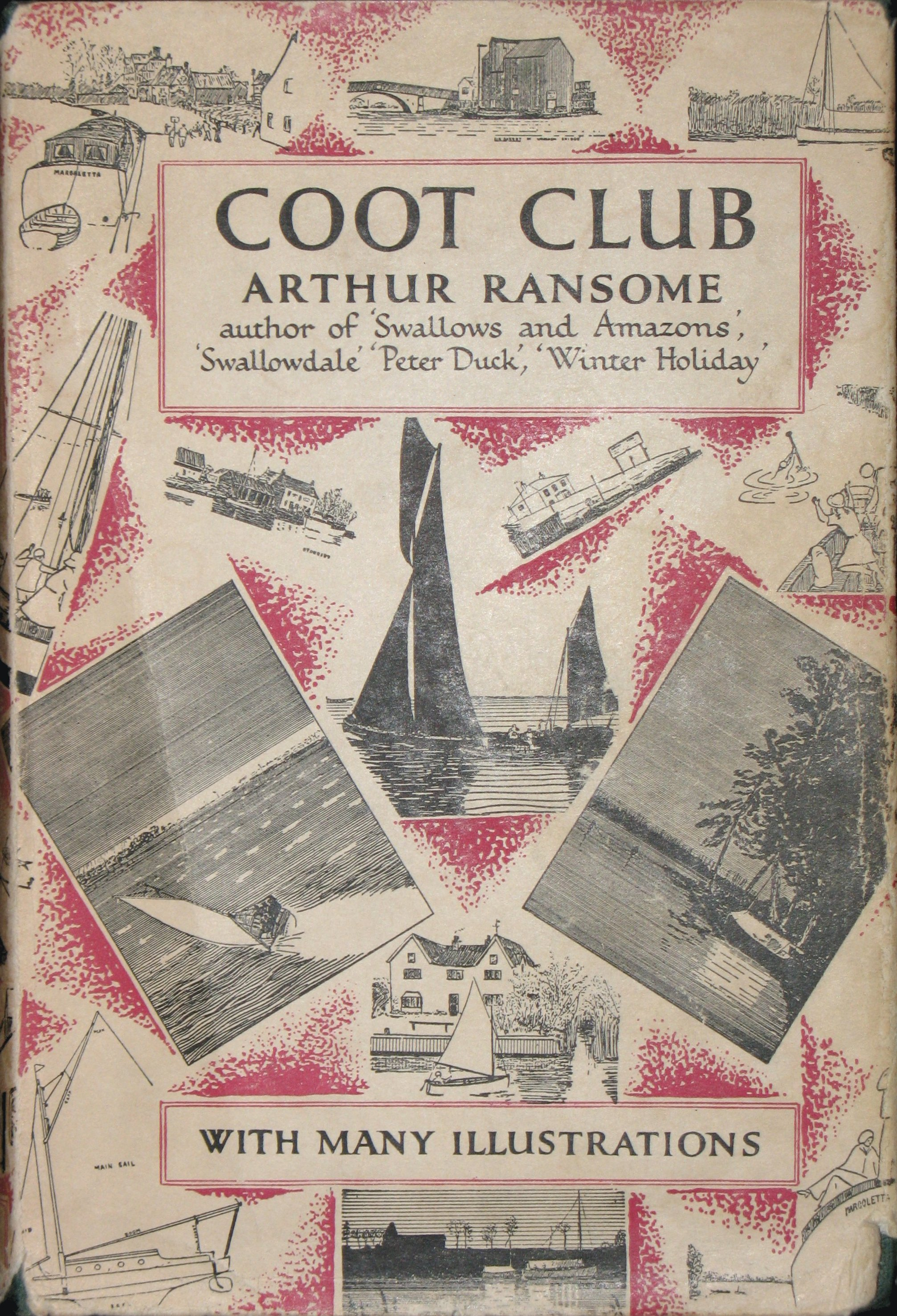 photo of Jonathan Cape edition of Arthur Ransome's 1934 novel, Coot Club